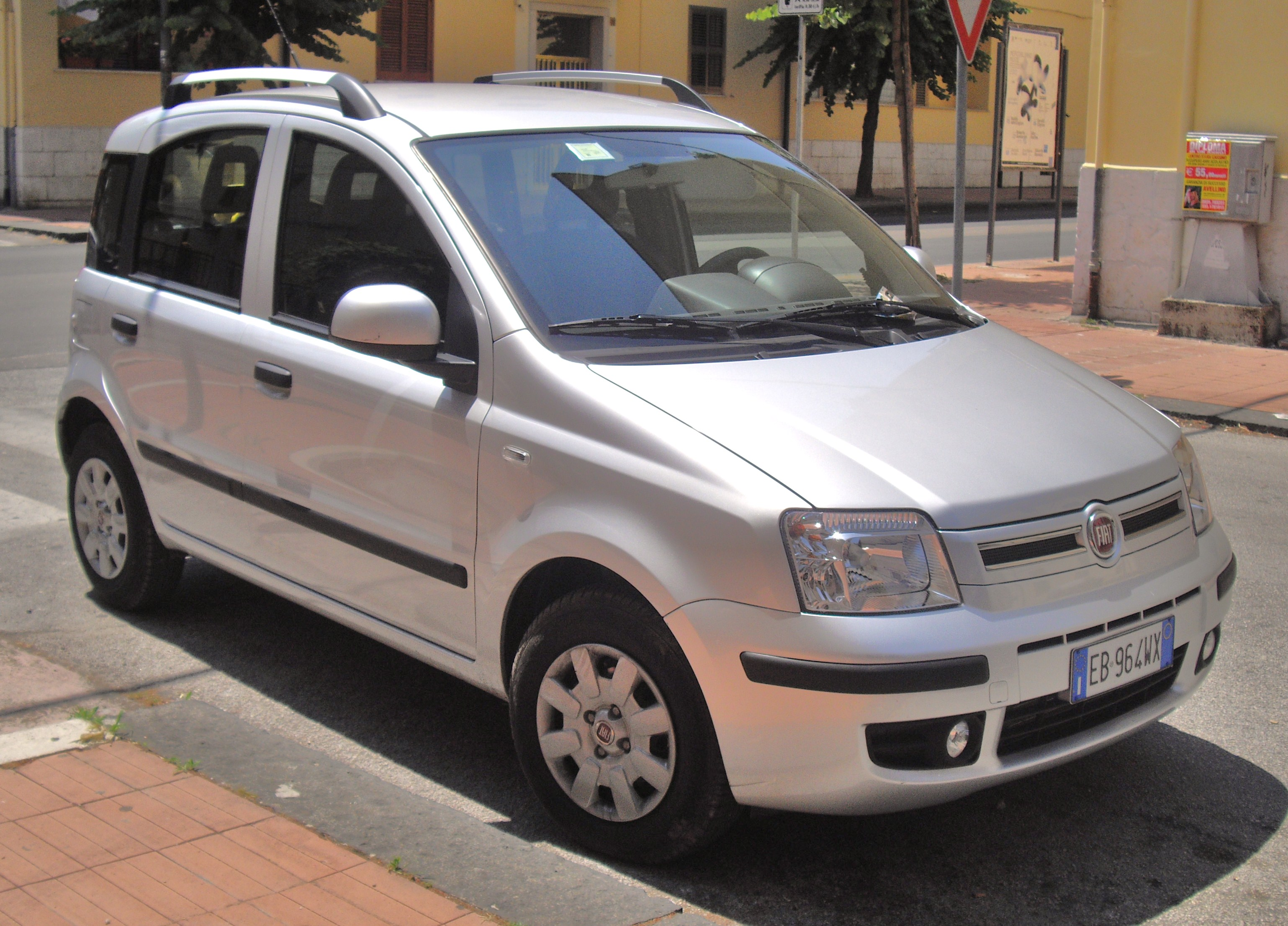 2010 Fiat Panda